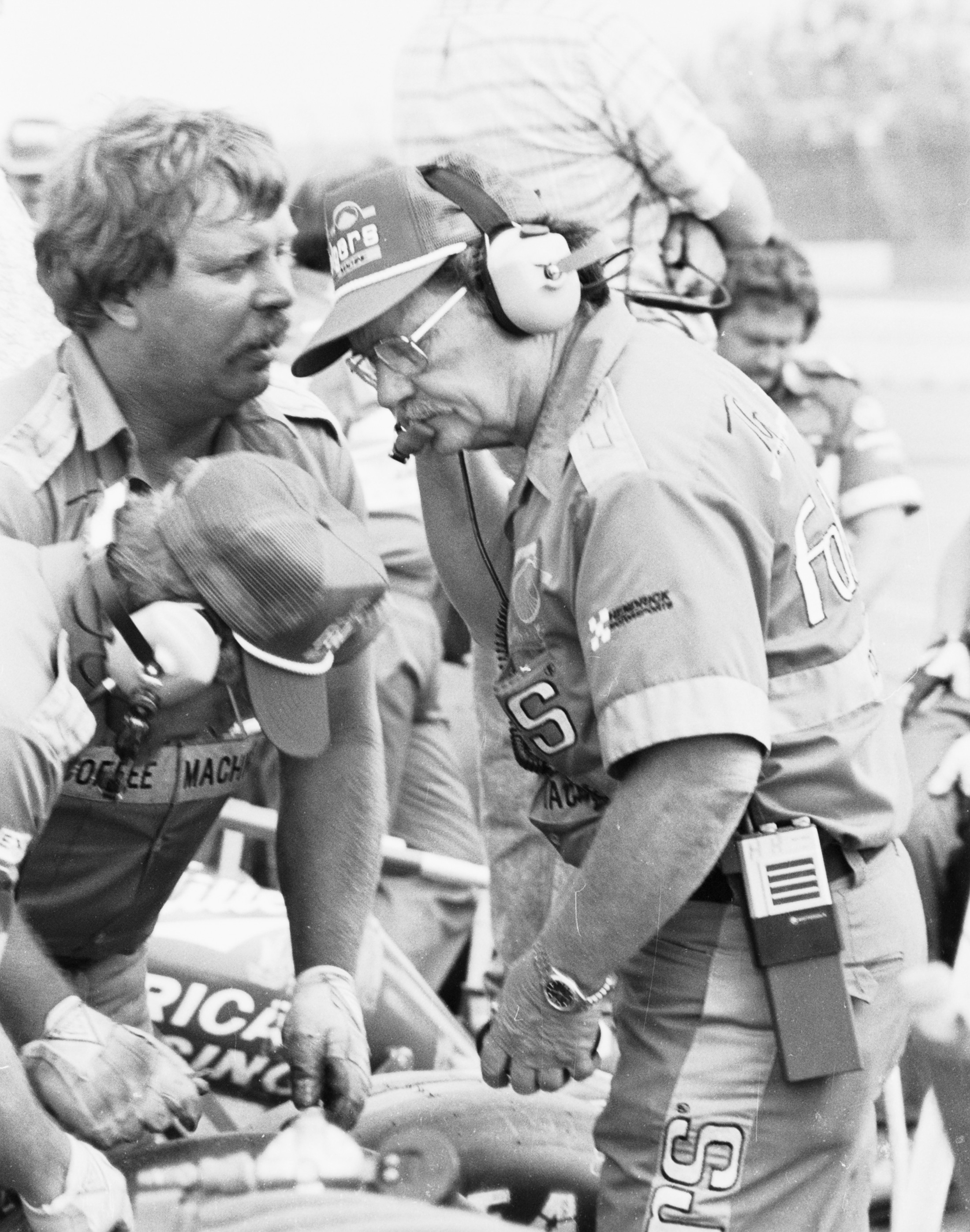 NASCAR crew chief Harry Hyde in 1985. Photo By Ted Van Pelt. Hyde was an inspiration for the movie Days of Thunder.